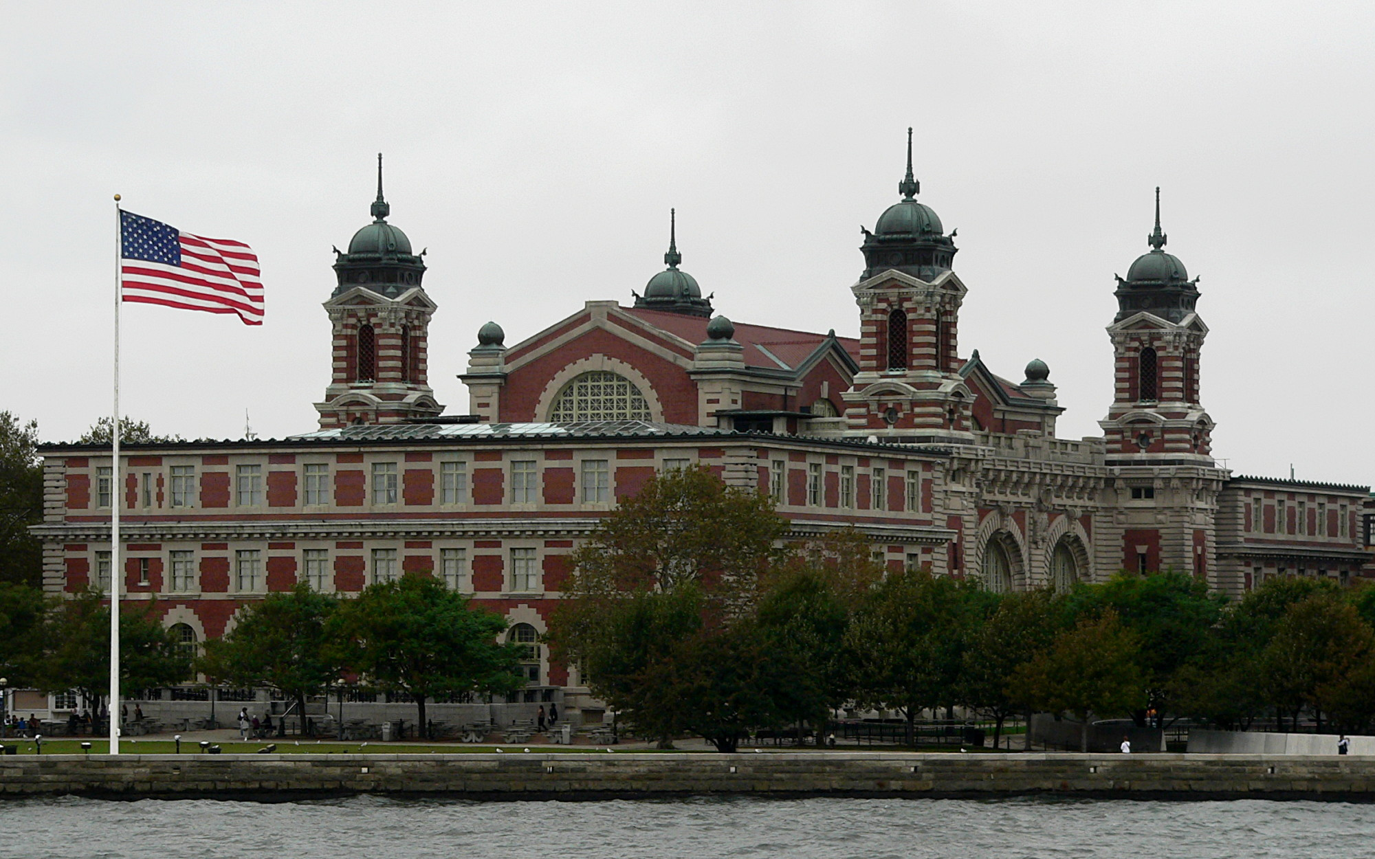 Ellis Island as seen from the Circle Line Ferry from Battery Park to Liberty Island.Photo taken with a Panasonic Lumix DMC-FZ20 in the borough of Manhattan, New York City, NY, USA.